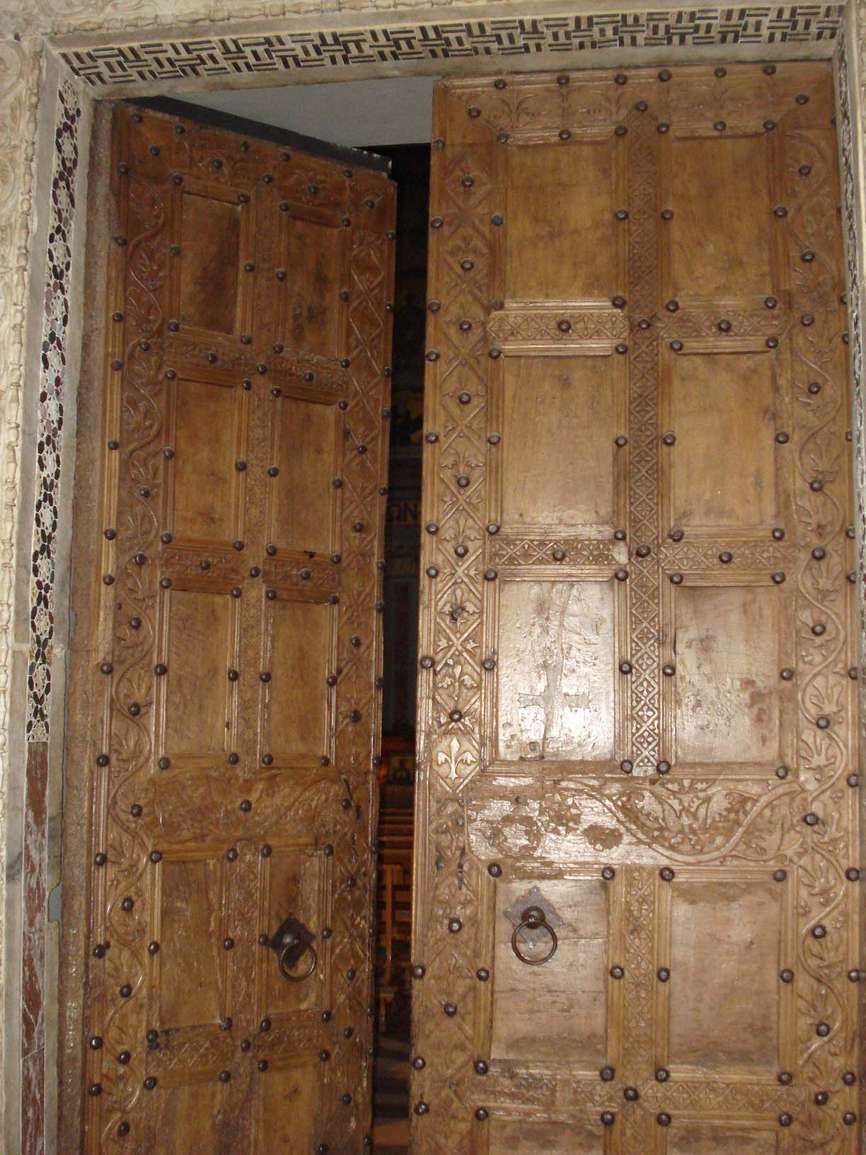 Entrance door (XI cent)